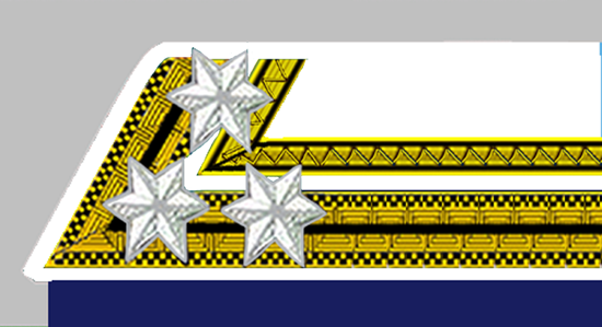 K.u.k. Stabsfeldwebel (First-Sergeant) white collar. Rank insignia was in use from 1913-1914.